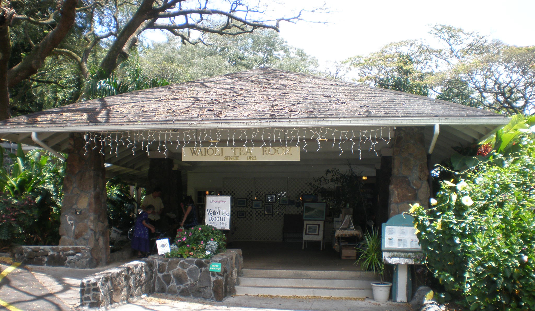 Salvation Army Waioli Tea Room, 3016 Oahu Avenue, Honolulu, Hawaii, on National Register of Historic Places